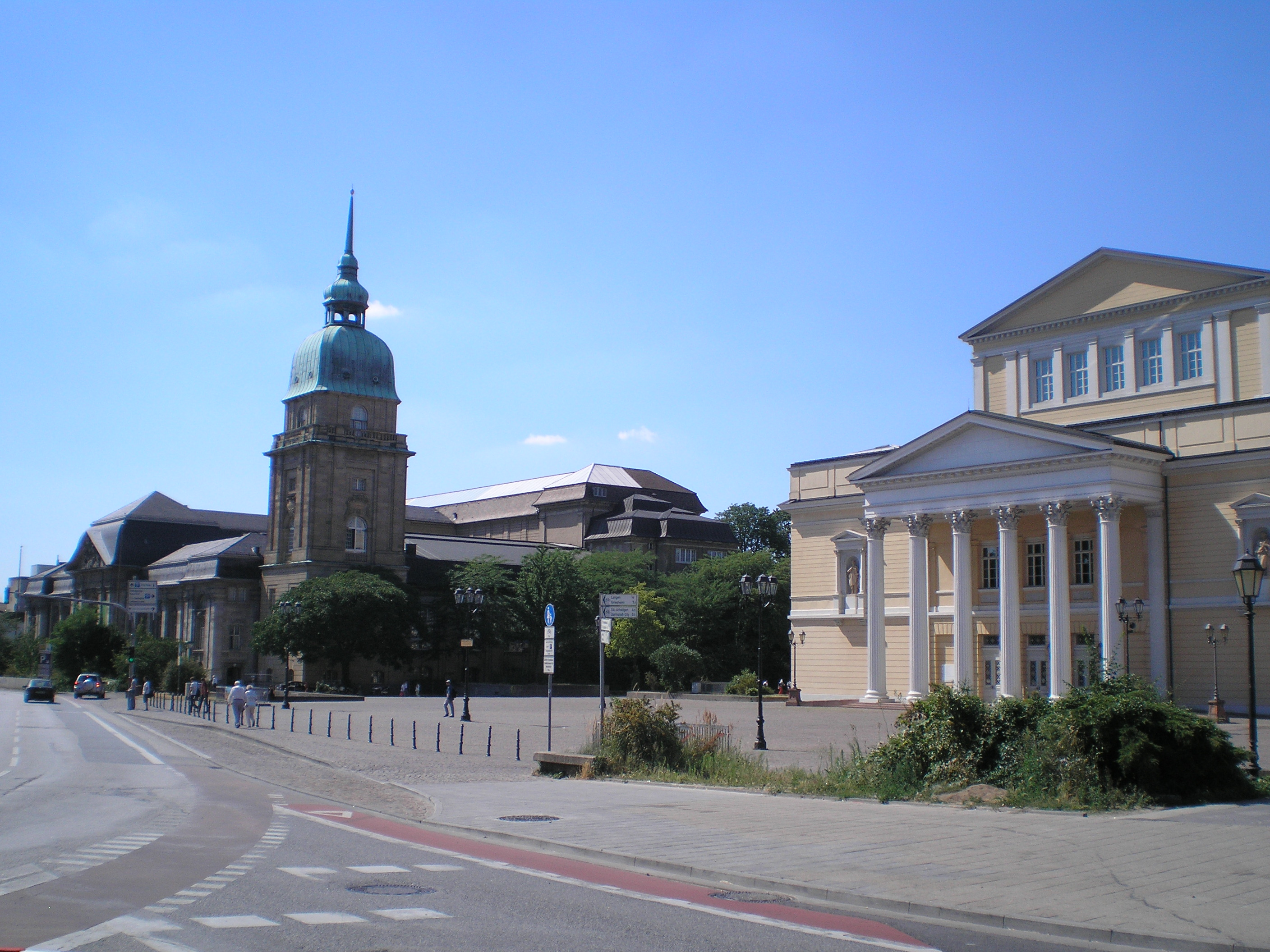 Karolinen-Platz, Darmstadt.